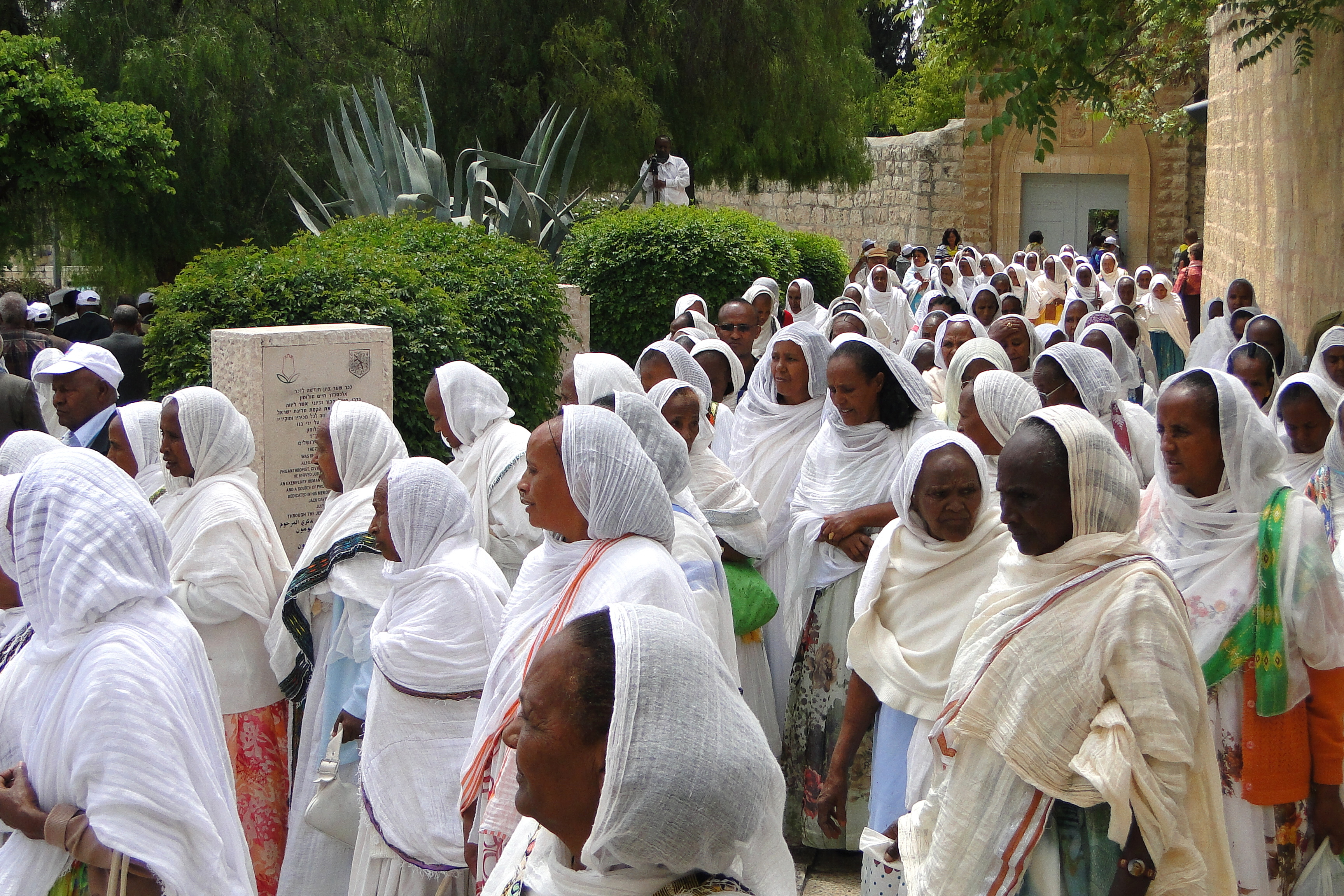 Pilgrims outside Church & Monastery of the Dormition - Jerusalem - Israel Pilgrims outside Church & Monastery of the Dormition - Jerusalem - Israel (5676088167).jpg